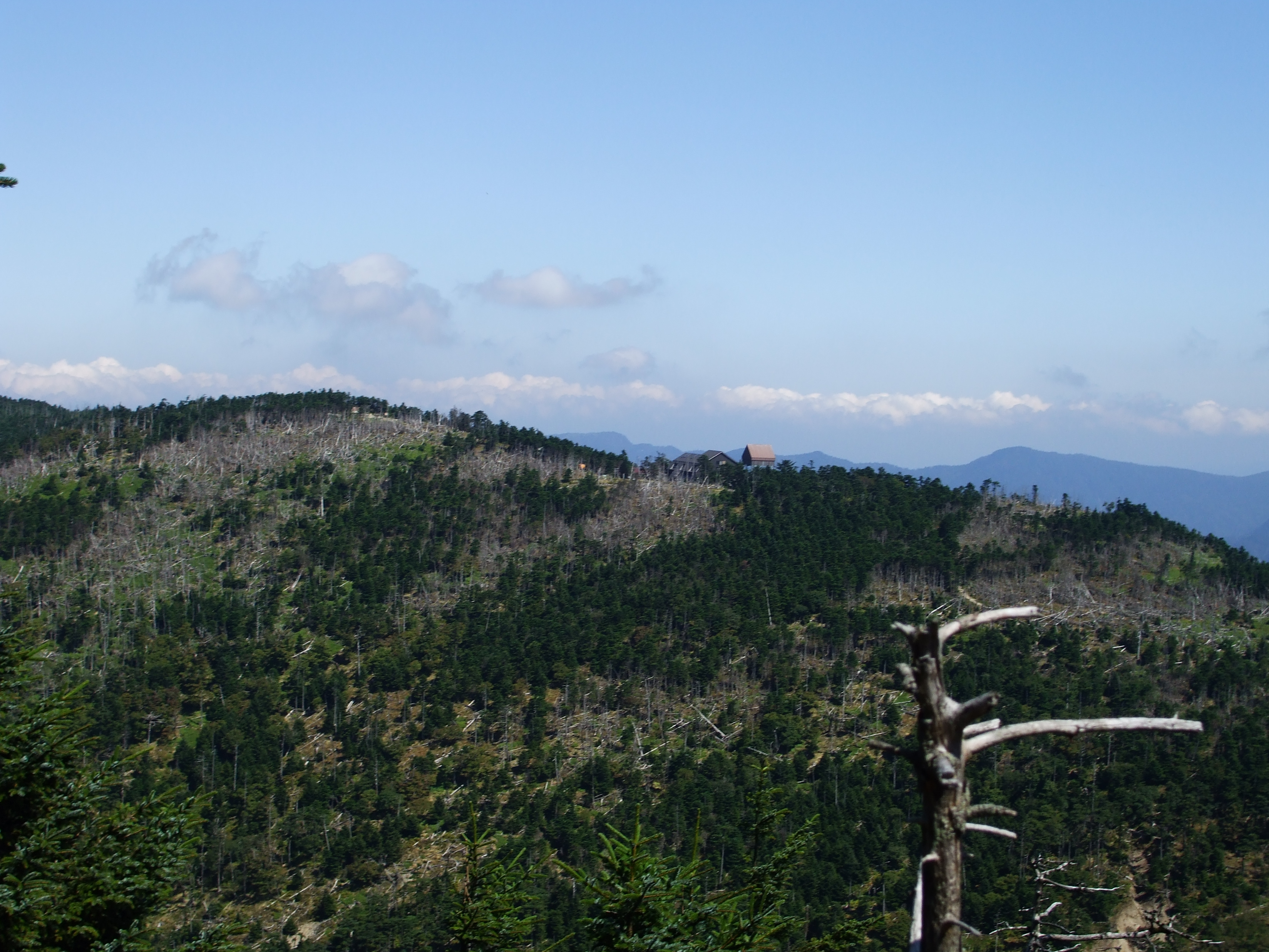 Mount Misen and Mount Daifugen, from Mount Hakkyo, Nara, Honshu, Japan, of Omine Mountains.